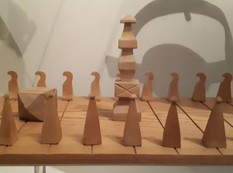 A sáhkku set donated to a museum in 1906, believed to have belonged to Isak Saba, the first Sámi parliamentarian. Photo taken at Varanger Sámi Museum, 2018.